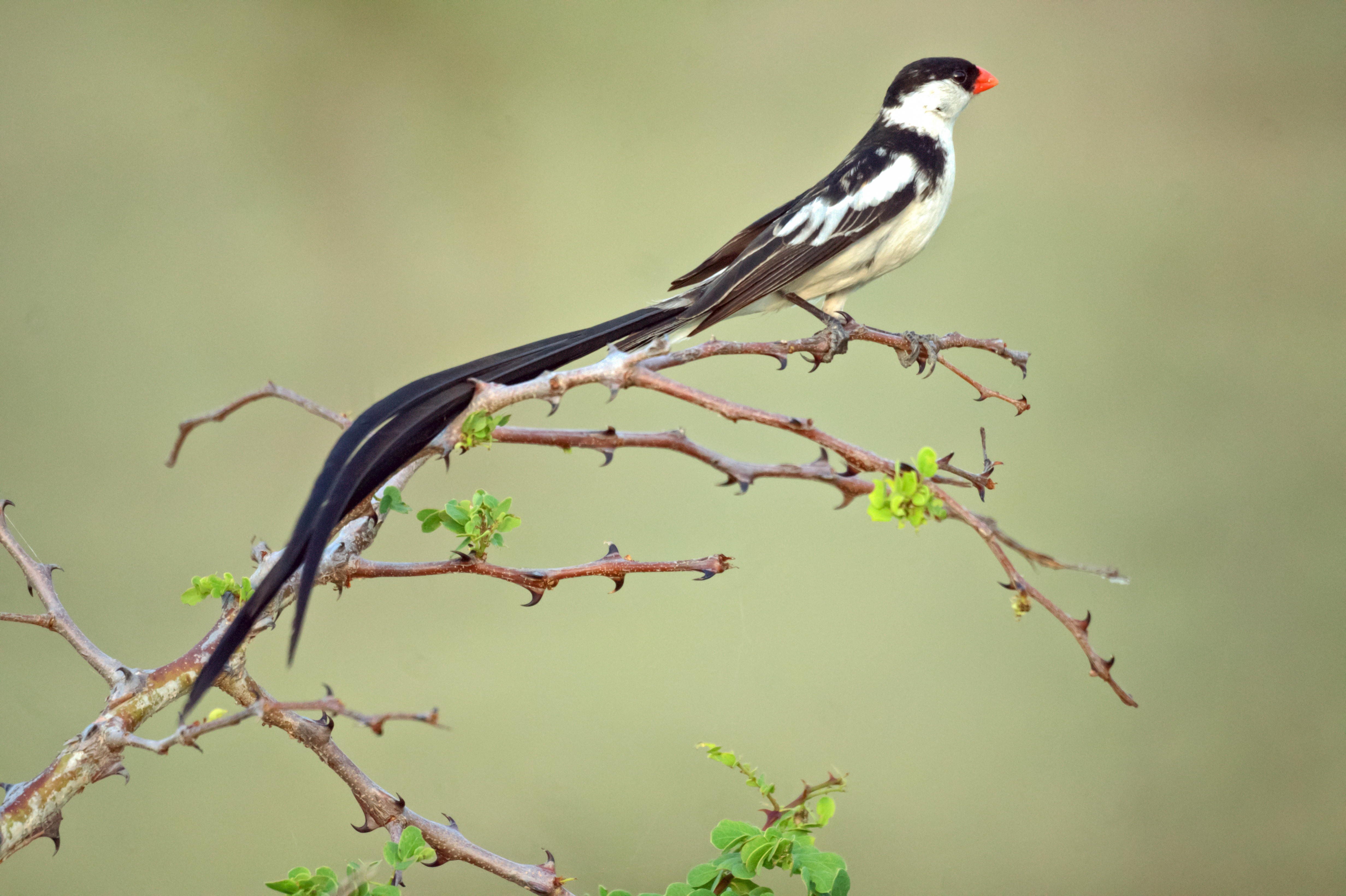 A male Pin-tailed Whydah at Londolozi Private Game Reserve, Limpopo, South Africa.